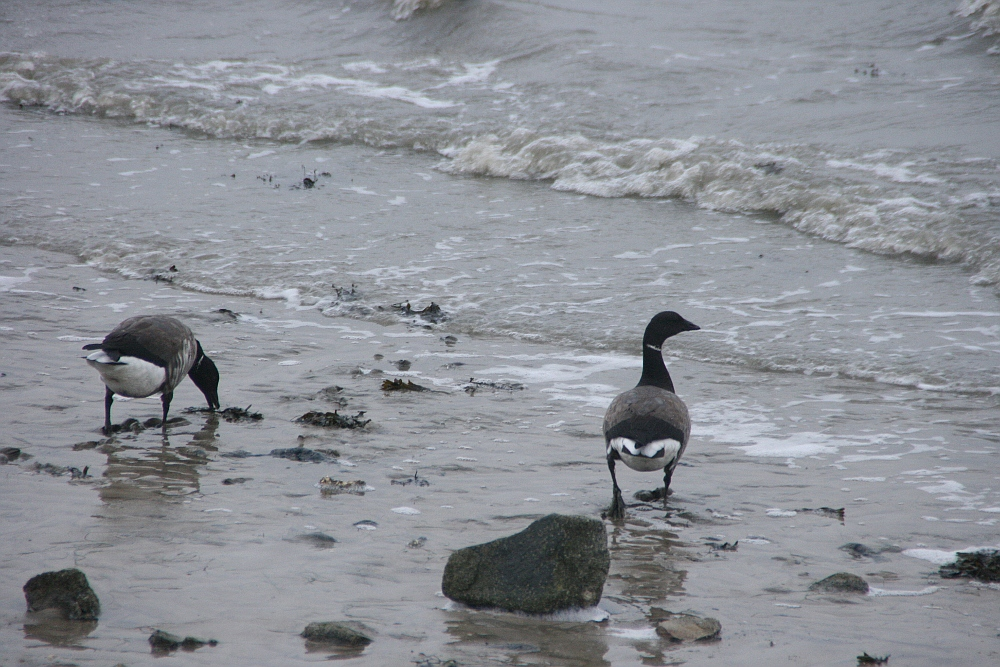 Brant geese Branta bernicla wintering at the Jade Bay in Wilhelmshaven, Germany